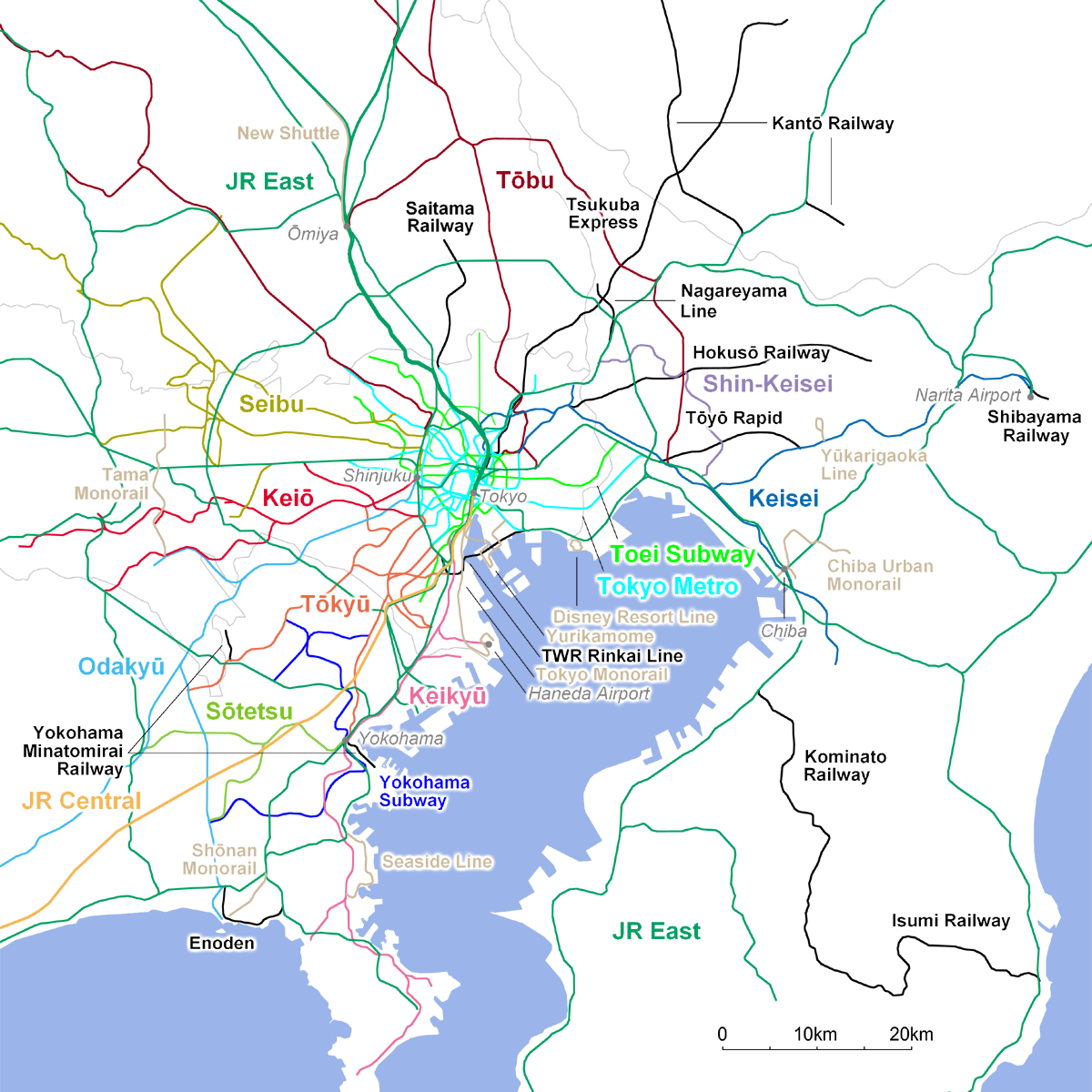 Approximate geographical representation of Greater Tokyo Area rail network. JR, Toei Subway, Major and Semi-major private railways (including Tokyo Metro) are in large font. These operators and Yokohama Subway are in different colors, while other lines are either black (conventional railways/metro) or brown (monorails/guideways).